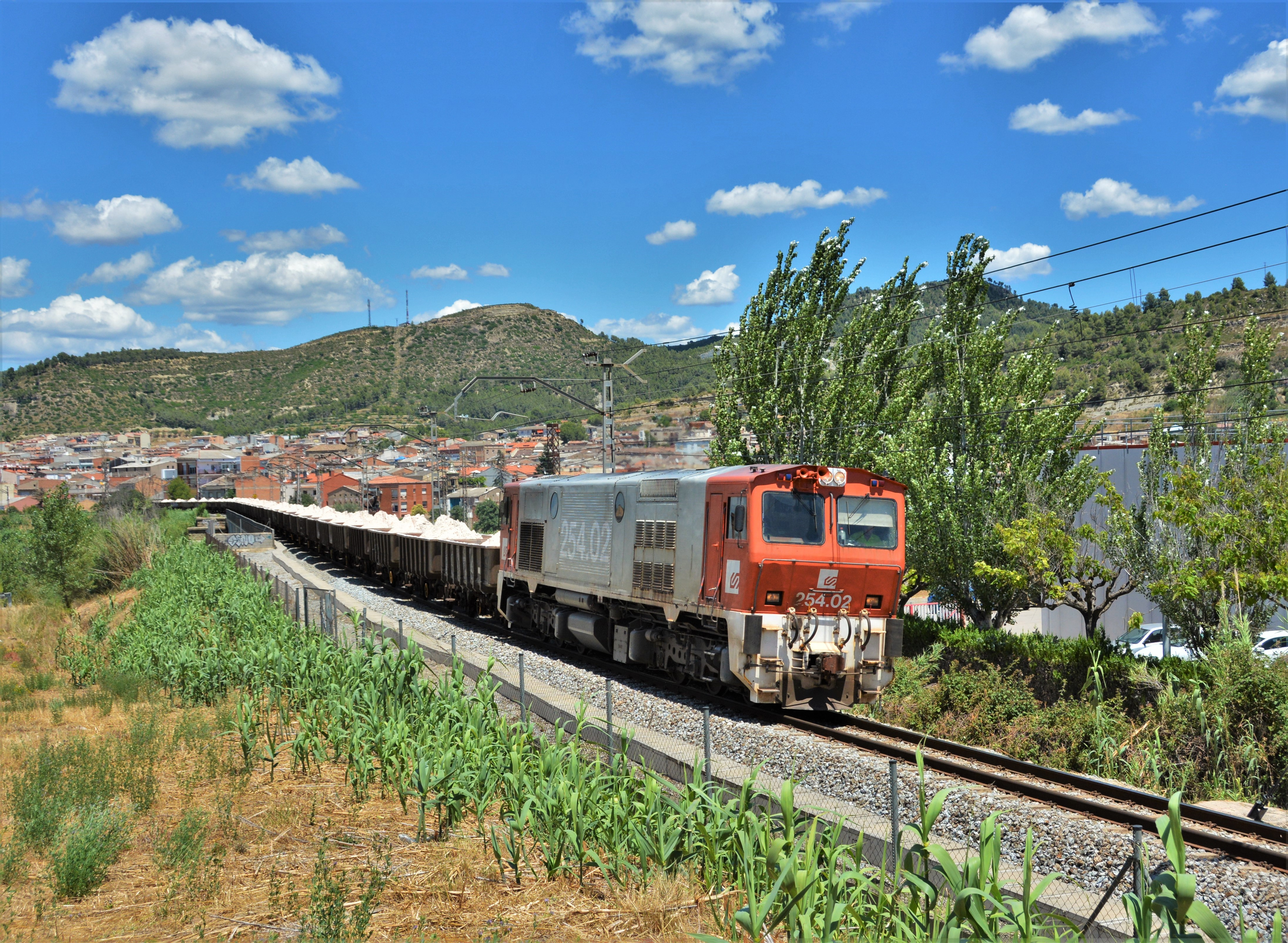 The last train loaded with salt with wagons of the 63,000 series of Ferrocarrils de la Generalitat de Catalunya, the Q932 from Manresa Alta to the Inovyn factory in Martorell, leaving the Sant Vicenç de Castellet station.